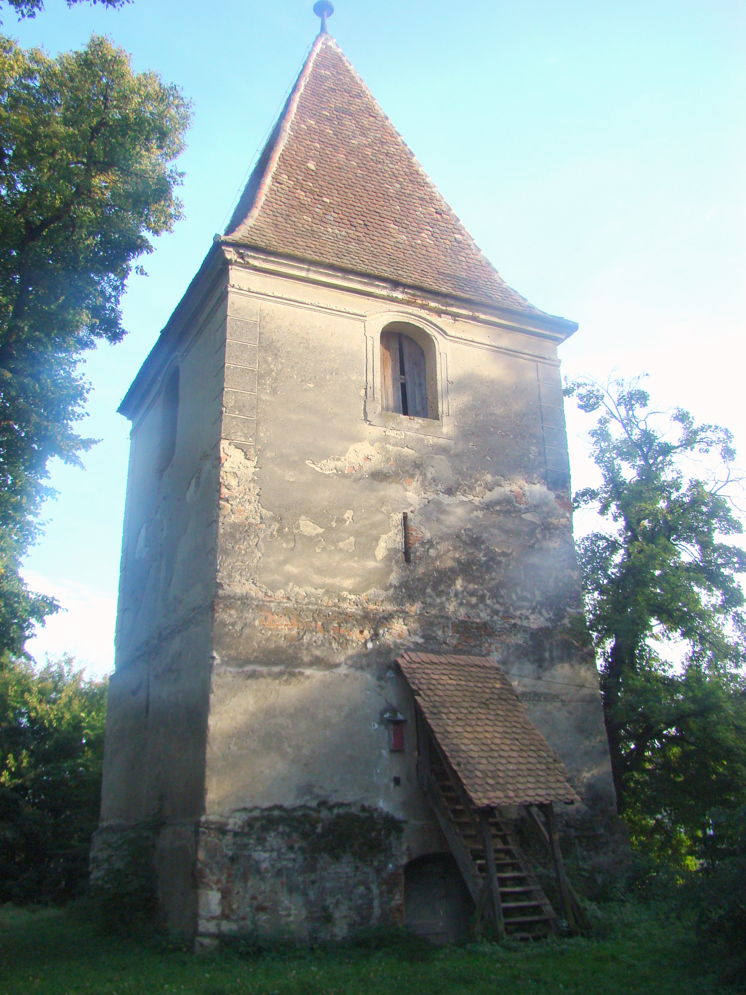 Saxon fortified church in Roșia, Sibiu countyRomână: Biserica evangheliocă fortificată din Roșia, județul Sibiu